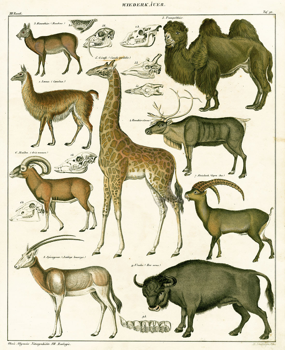 Artiodactyla